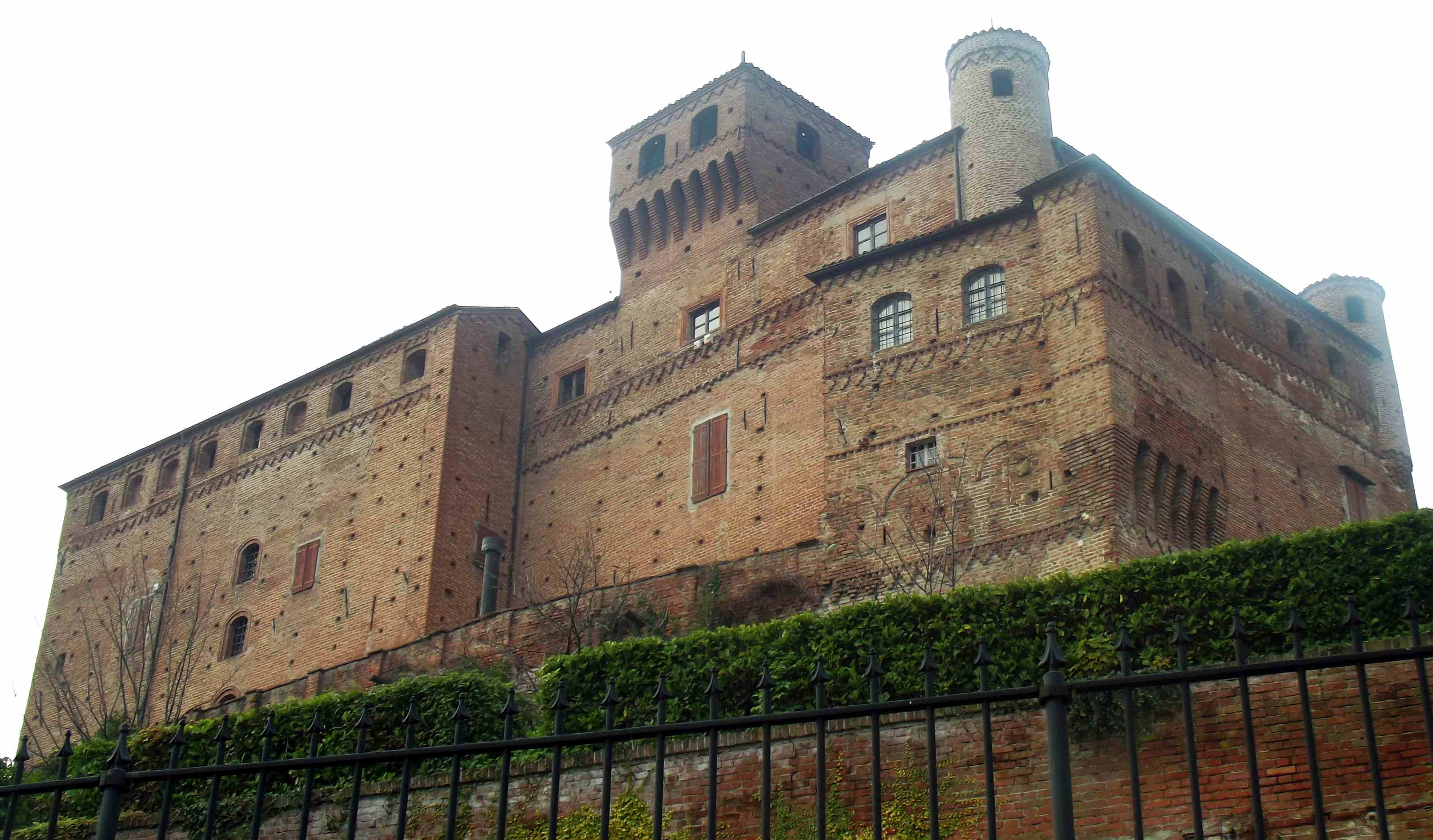 Bardassano (Gassino, TO, Italy): medioeval castle